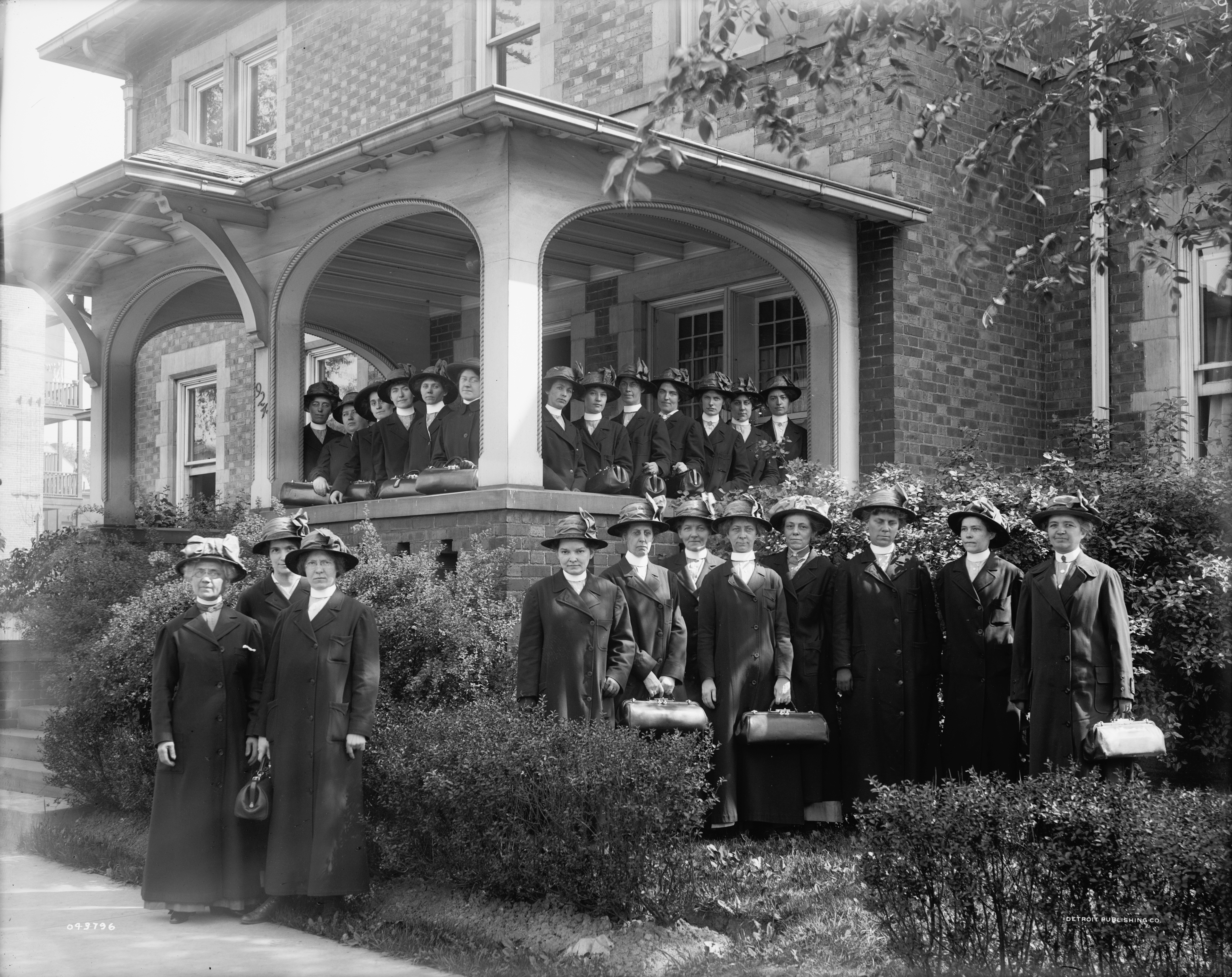 Visiting Nurses building, showing group, Detroit, Michigan